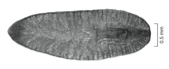 Weissius capaciductus. ZMA V.Pl. 3059.1. Dorsal view of whole mount.